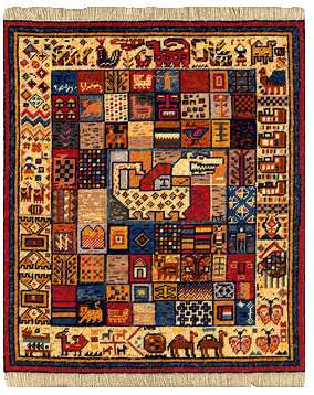 reproduction of a gabbeh carpet